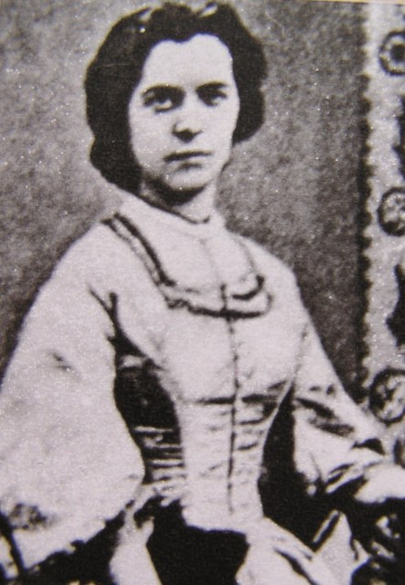 Jenny Caroline Marx Longuet (1844-1883), daughter of Jenny von Westphalen and Karl Marx